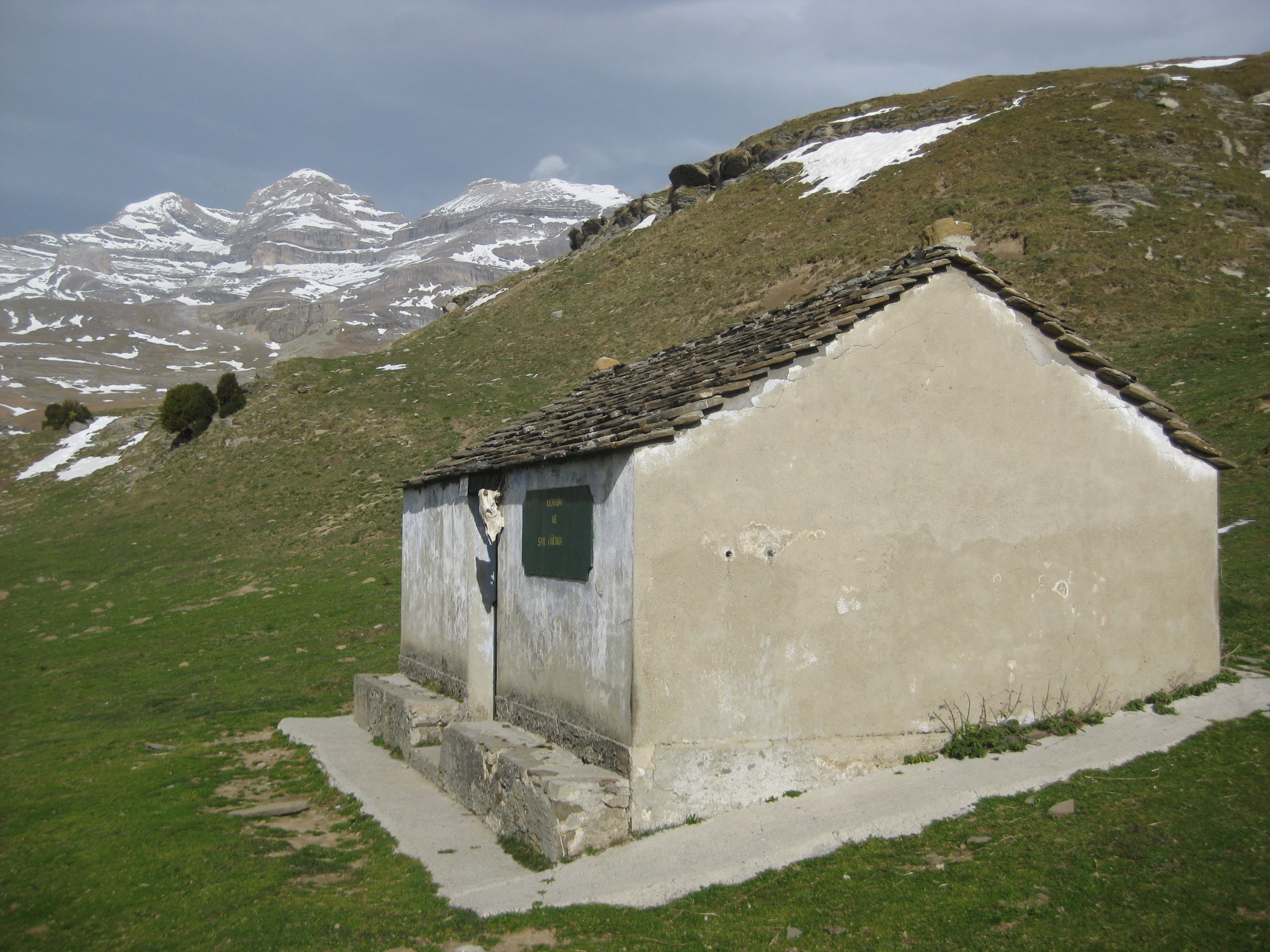 Mountain hut, Aragonese Pyrinees.